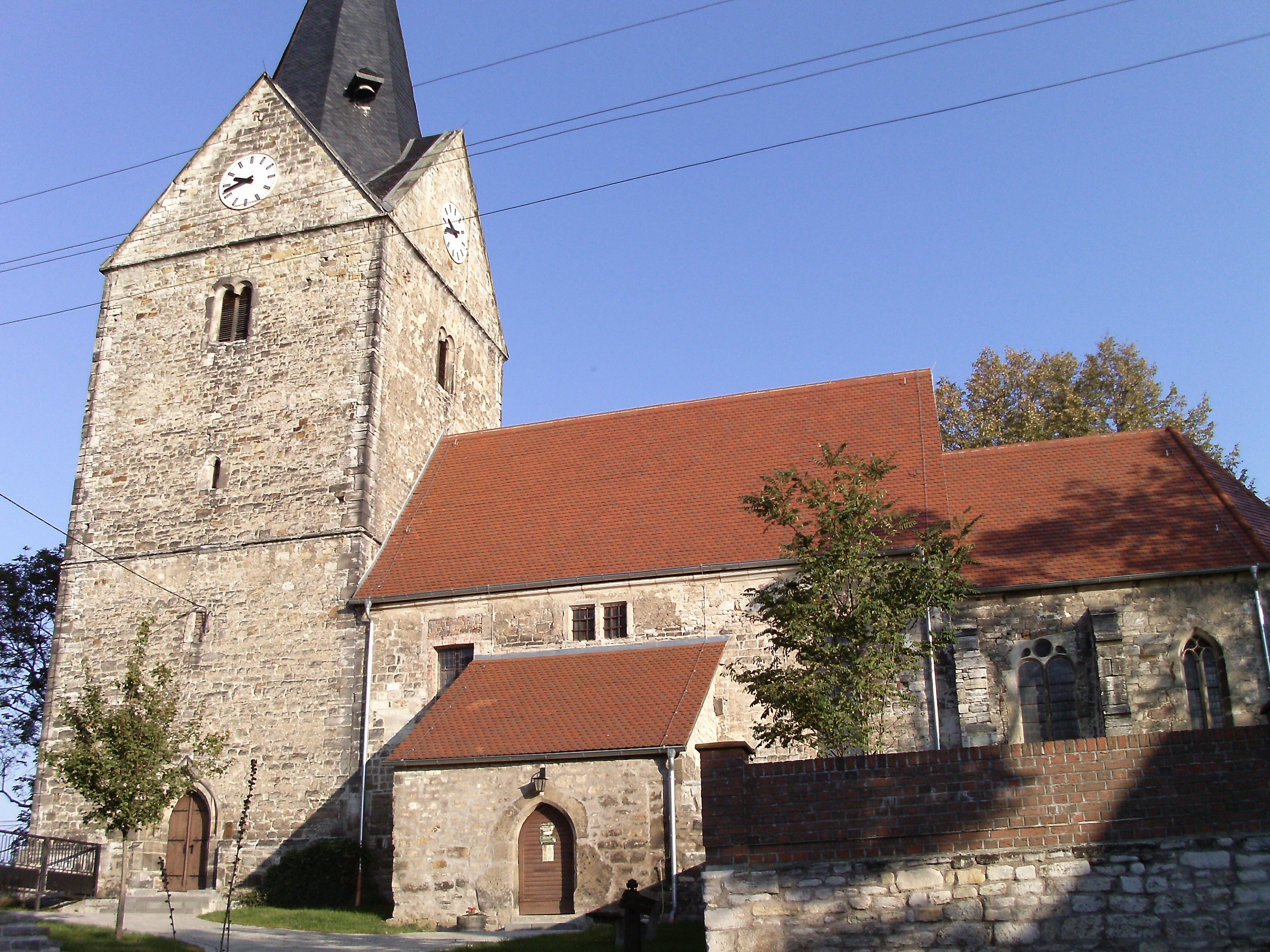 St. Martin's church in Grosskorbetha (Weissenfels, district of Burgenlandkreis, Saxony-Anhalt)